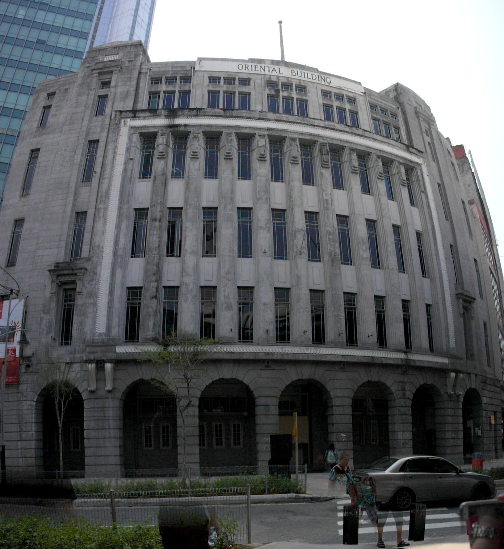 Oriental Building, Kuala Lumpur